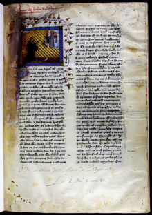 manuscript from the 15th-century; the original work is from 13th-century